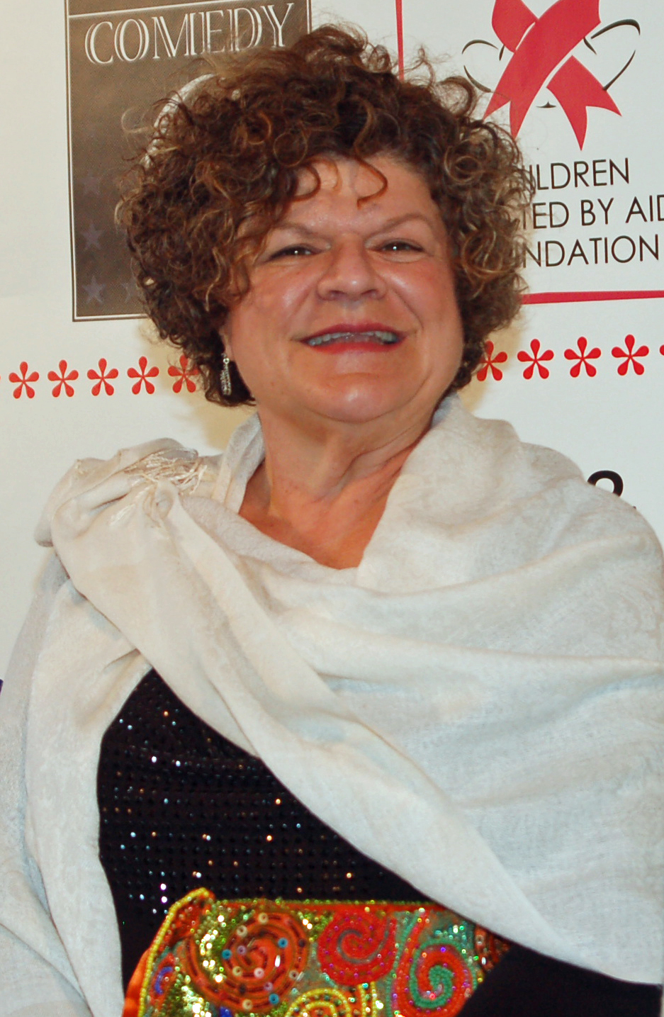 Mary Pat Gleason at the Night of Comedy 9 benefit to support the Children Affected by AIDS Foundation (CAAF) in Beverly Hills, California.